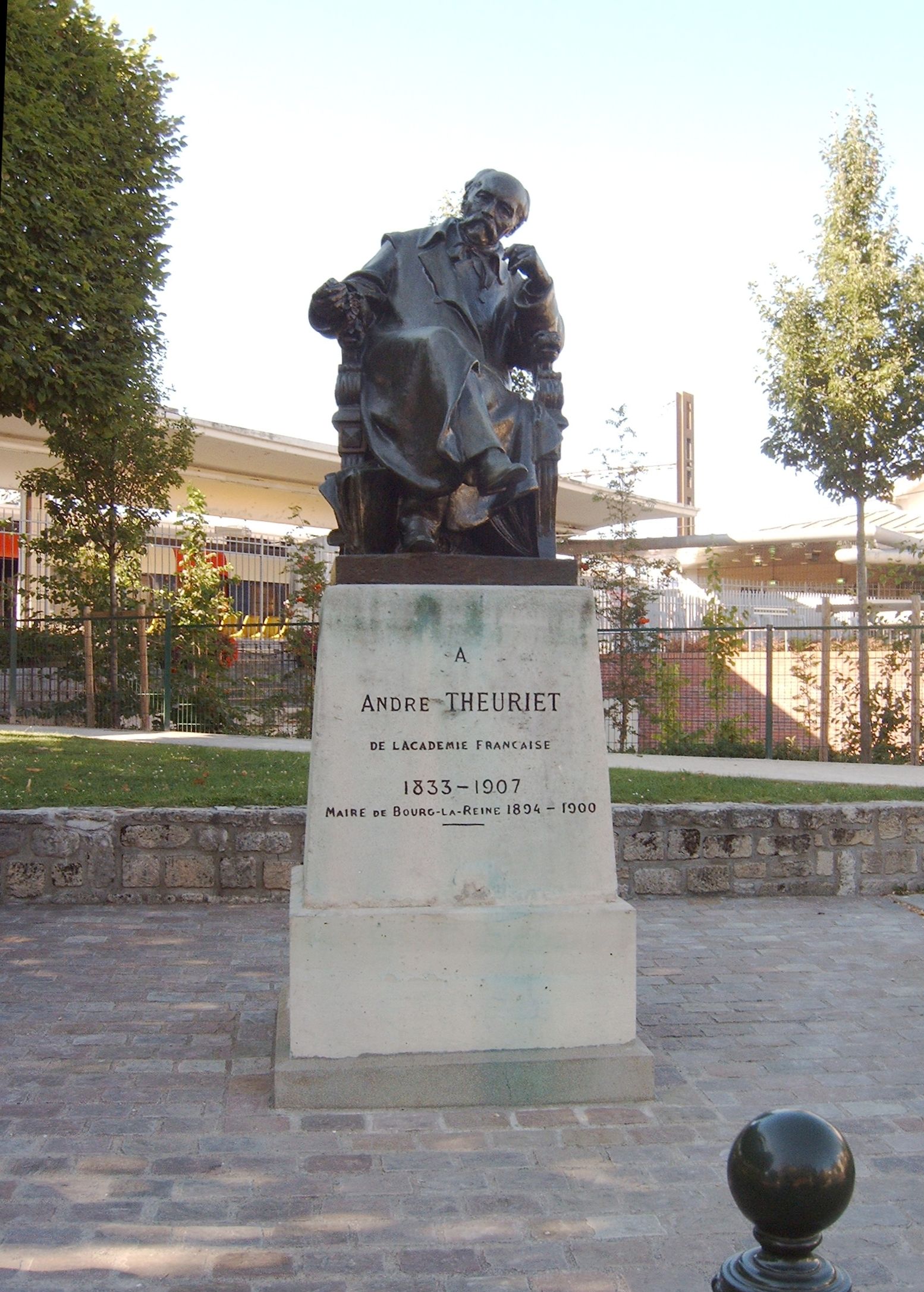 André Theuriet's statue